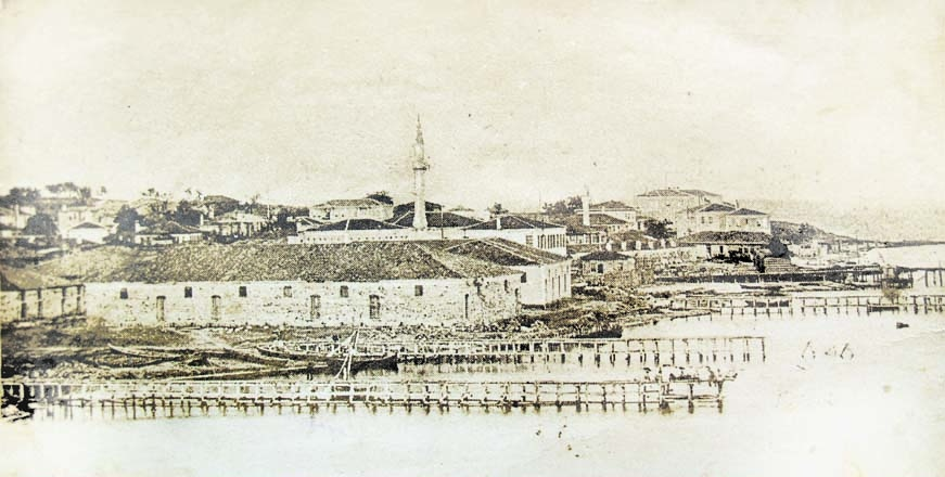 Burgas: Port of Burgas 1893